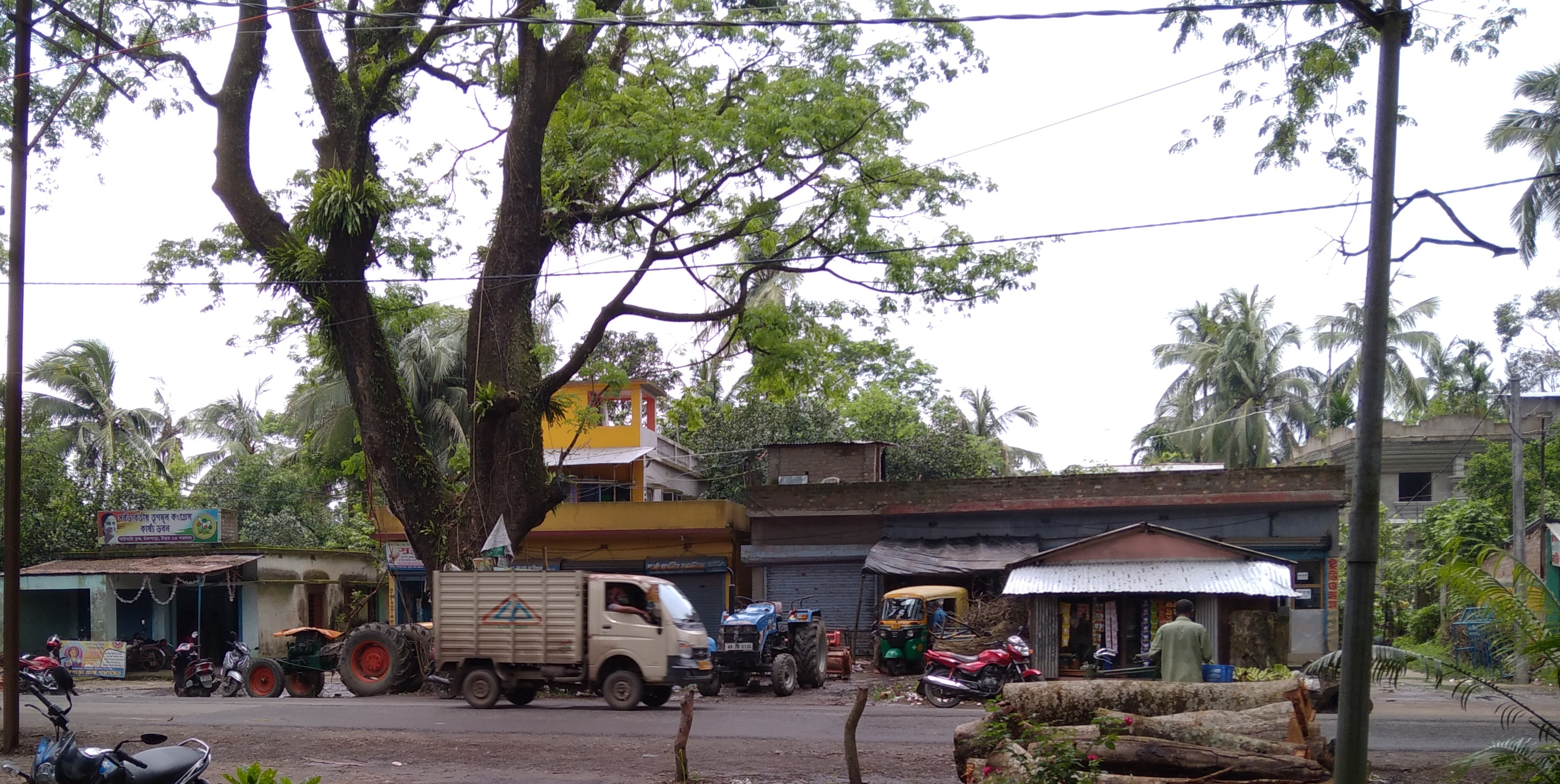 National Highway 112 (India), Chandpara, West Bengal.